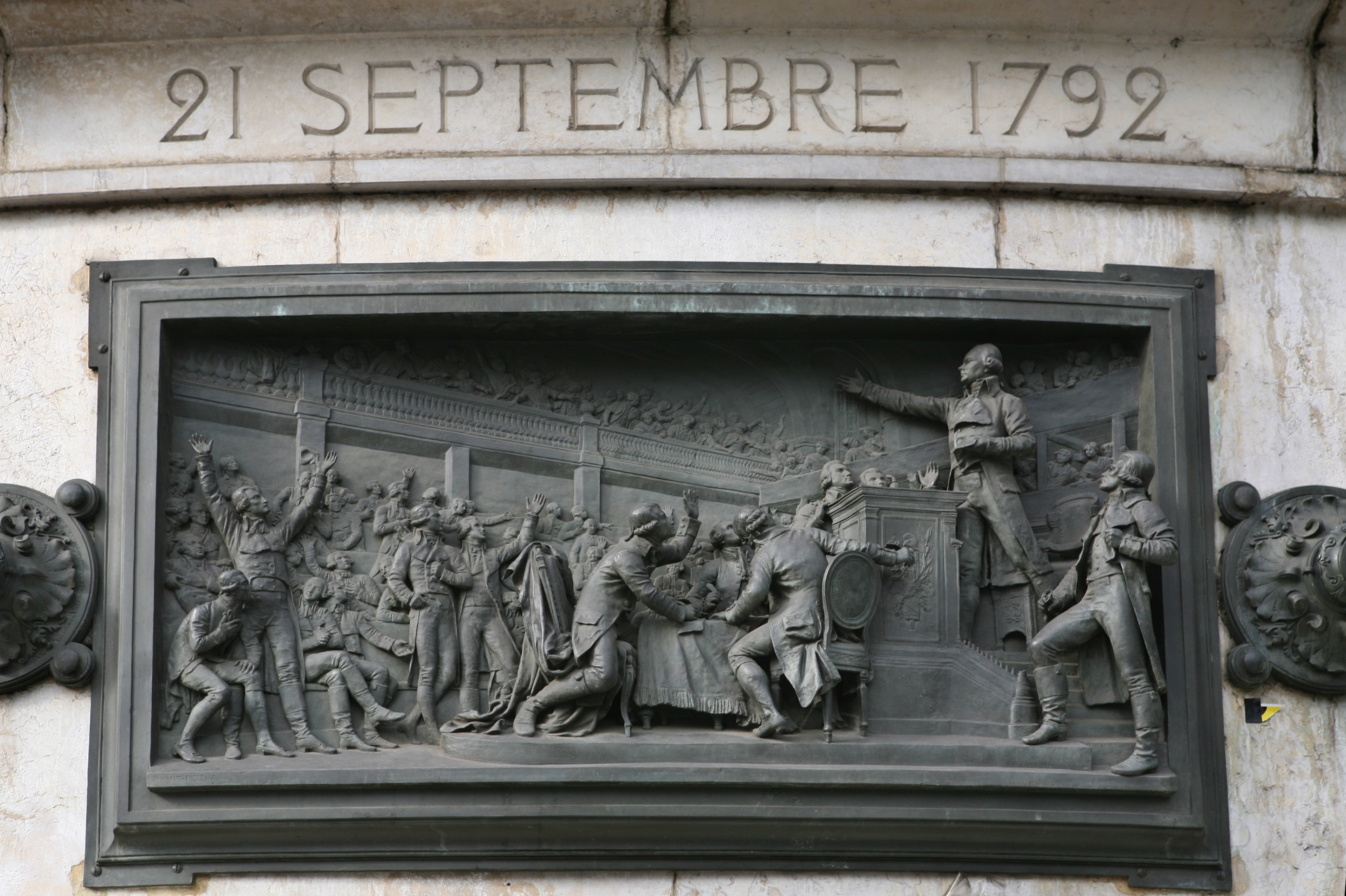 Proclamation of the abolition of the royalty (1792-09-21), high-relief bronze by Léopold Morice, Monument of the Republic, Republic Square, Paris, 1883